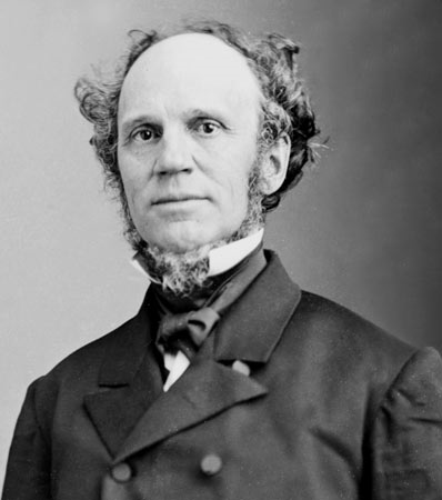 Horatio Seymour